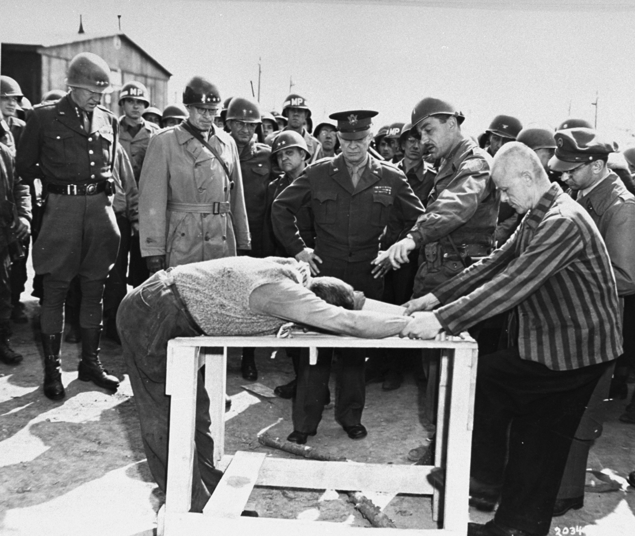 Survivors of the Ohrdruf concentration camp demonstrate torture methods used in the camp to top ranking American generals. Among those pictured are General Dwight Eisenhower, (center), General Omar Bradley (second from the left), and General George S. Patton (left). Jules Grad (far right), pool correspondent for the "Stars and Stripes," is taking notes. The mustached soldier who is pointing at the demonstrated torture victim is Alois J. Liethen of Appleton, WI, who served as the interpreter for the tour of Ohrdruf. Original caption reads: "General Dwight D. Eisenhower, supreme allied commander, watches grimly while occupants of the German Concentration Camp at Gotha demonstrate how they were tortured by the Nazi sadists operating the camp. General "Ike" visited the camp during a tour of the Third Army Front. General Omar N. Bradley, 12th Army Group CG, and Lt. General George S. Patton, 3rd Army CG, are at the supreme commander's right."